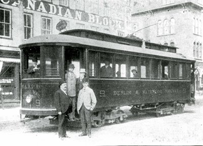 Photograph of a Berlin and Waterloo Street Railway car with four men standing in front, taken on King Street facing north at the intersection of King and Ontario in downtown Kitchener, Ontario, Canada. The Canadian Block building can be seen in the background.